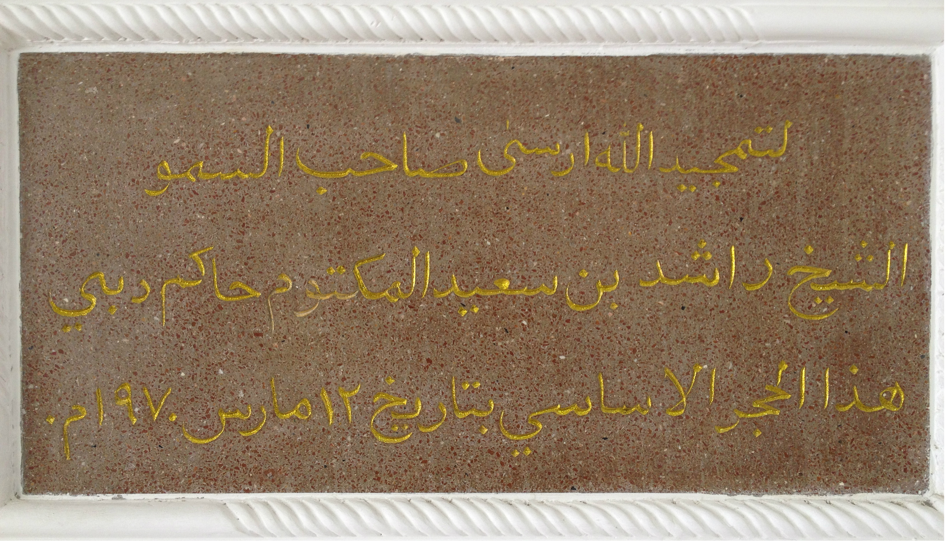 Holy Trinity Church's foundation stone laid by His Highness Sheikh Rashid Bin Saeed Al Maktoum Ruler Of Dubai